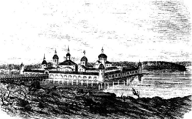 Novoezersky Monastery near Belozersk, Russia, 1880